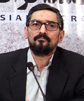 Saeid Zibakalam and Foad Izadi